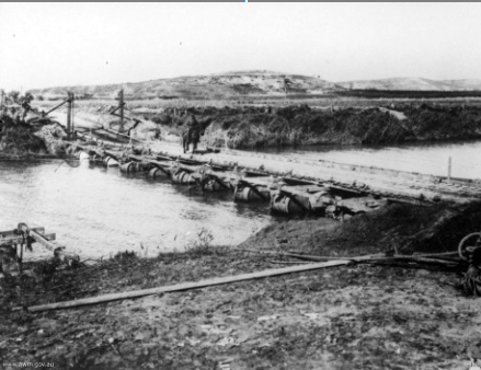 ID Number: H10619 Place made: Ottoman Empire: Palestine Physical description: Black & white Summary: Palestine. c. 1917. A pontoon type bridge over the Wady el Auja four miles north east of Jaffa. (Donor British Official Photograph Q12299) Copyright: Copyright expired - public domain Related conflict: First World War, 1914-1918 File name: 4121930.JPG